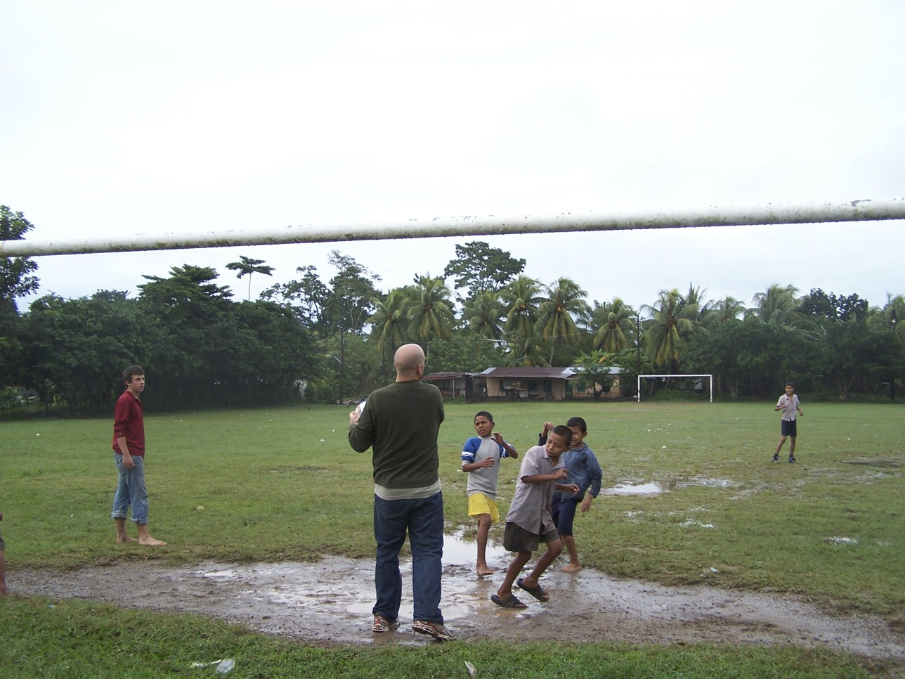 This picture was taken by Mike Pettengill. It is the soccer field in Armenia Bonito.